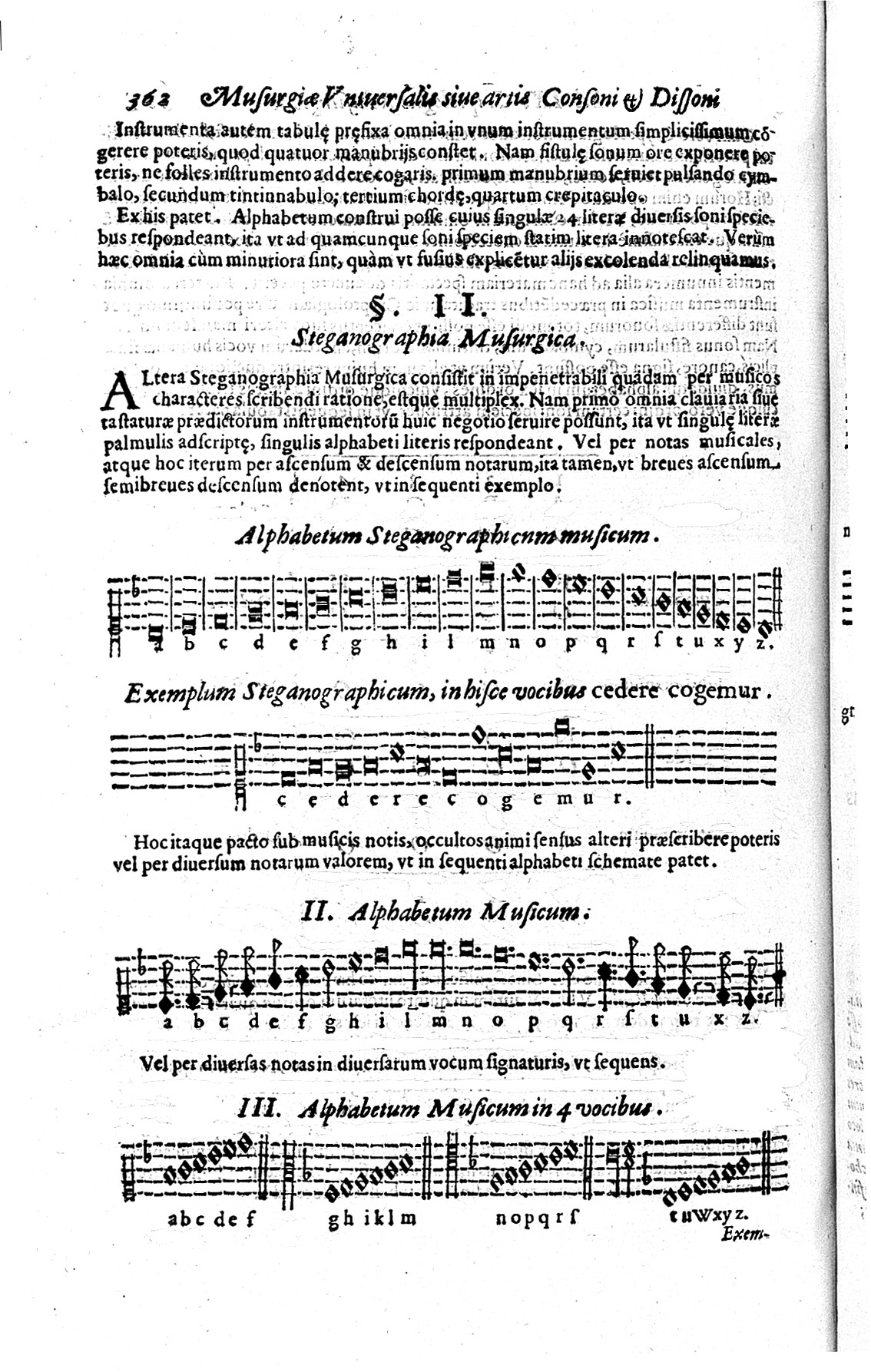 Steganographia Musurgica Rare Books